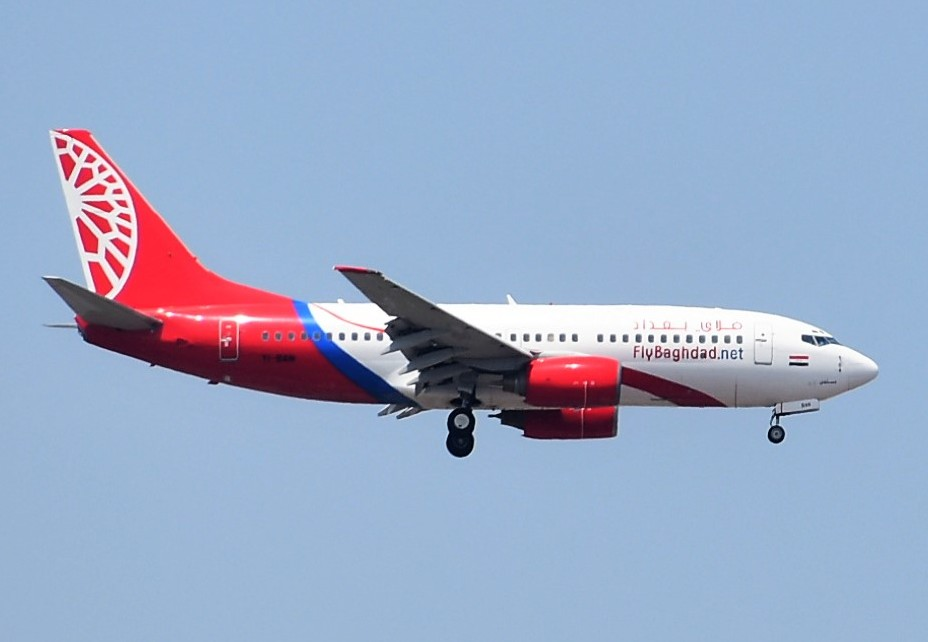 Boeing 737/7 of FlyBaghdad on approach to rwy.24 at Istanbu-SAW, 07/06/18.